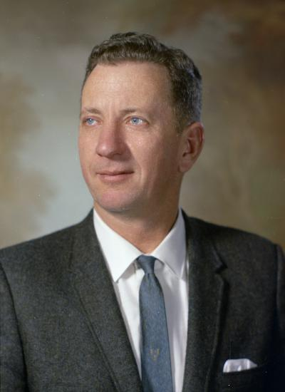 Representative Irving Newhouse, 1967